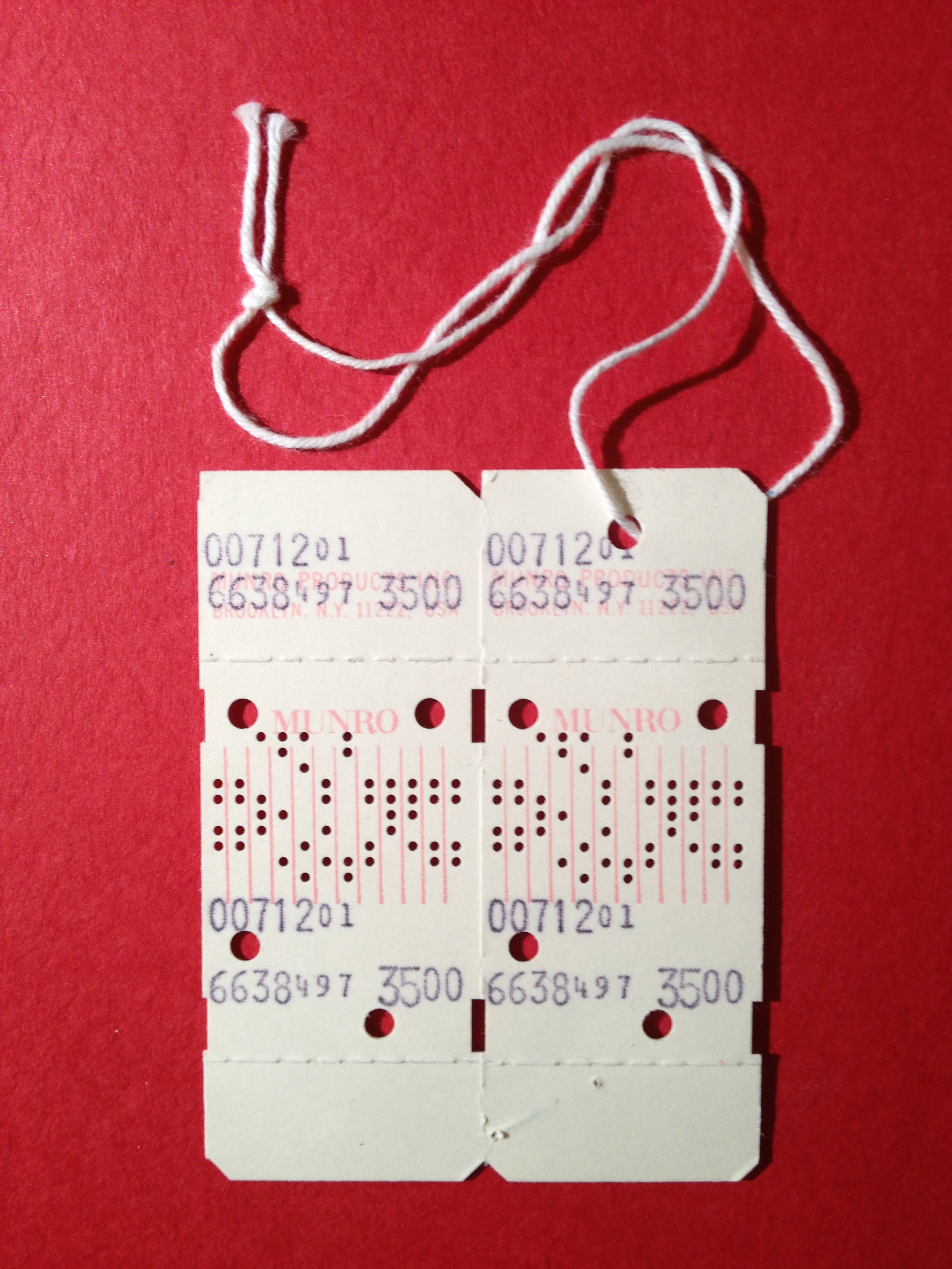 Price tag with punched coding. From a piece of luggage that I purchased in January 1970. Card is 2-7/8 inches high by 2-1/4 inches wide.